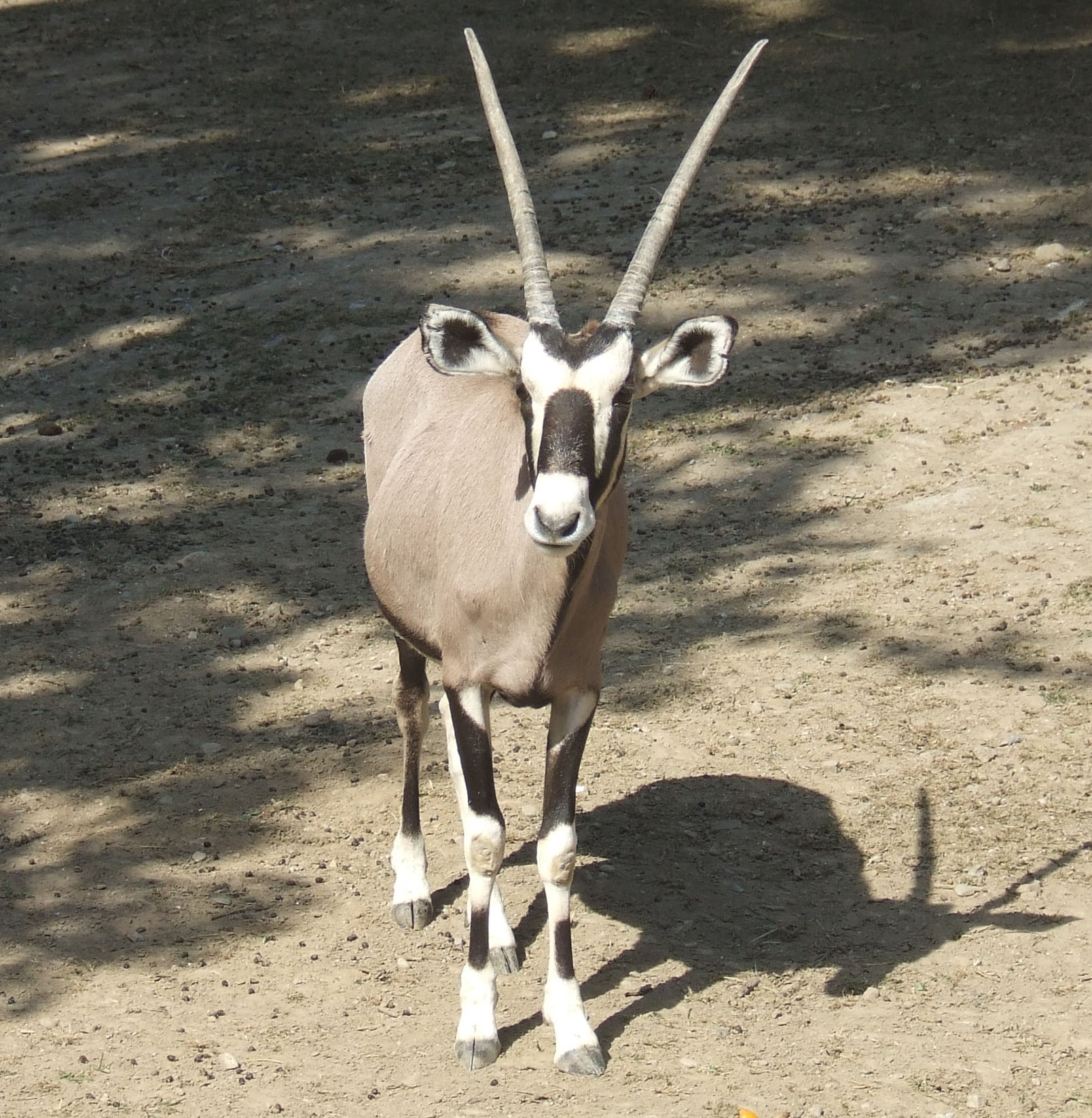 Gemsbok